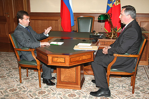 BOCHAROV RUCHEI, SOCHI. With Russian Permanent Envoy to the North Atlantic Treaty Organisation (NATO) Dmitry Rogozin.